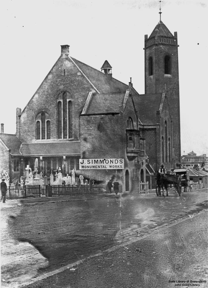 St Andrew's Presbyterian Church on Ann Street, Brisbane, with stonemason next door, ca. 1915. View looking south of St Andrew's Presbyterian Church on Ann Street, Brisbane, with stonemason 'J. Simmonds Monumental Works' next door. There is some pedestrian and horse-drawn traffic in the street.